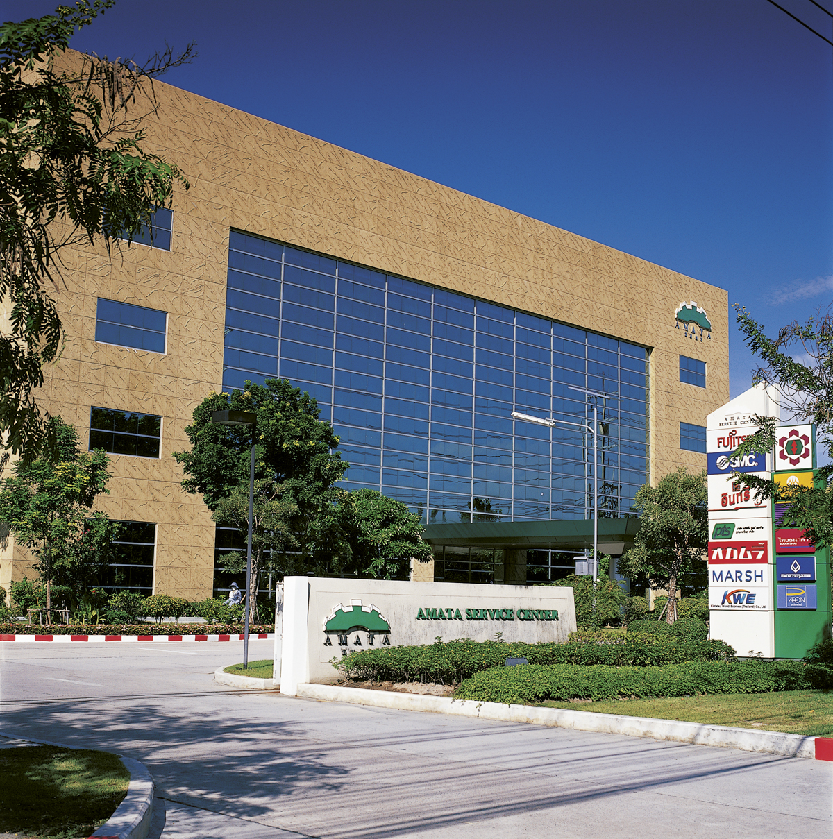 AMATA corporation Headquarter in Chonburi